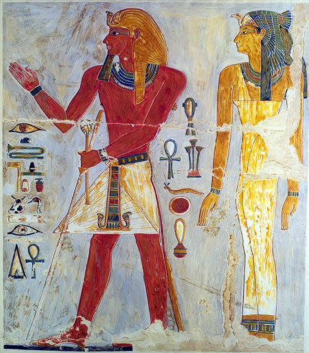 Relief of Thutmose I. Facsimile by Nina deGaris Davies, 1925. Metropolitan Museum of Art Rogers Fund, 1930 (30.4.137). This painted relief from the Chapel of Anubis in the Mortuary Temple of Hatshepsut was copied by the artist Nina deGaris Davies as part of the work of the Graphic Section of the Metropolitan Museum of Art Egyptian Expedition. Richly painted, the relief depicts the king wearing a pleated linen shendyt with elaborate sash. He carries a walking stick and ceremonial mace. Thutmose I is accompanied by his mother Seniseneb.